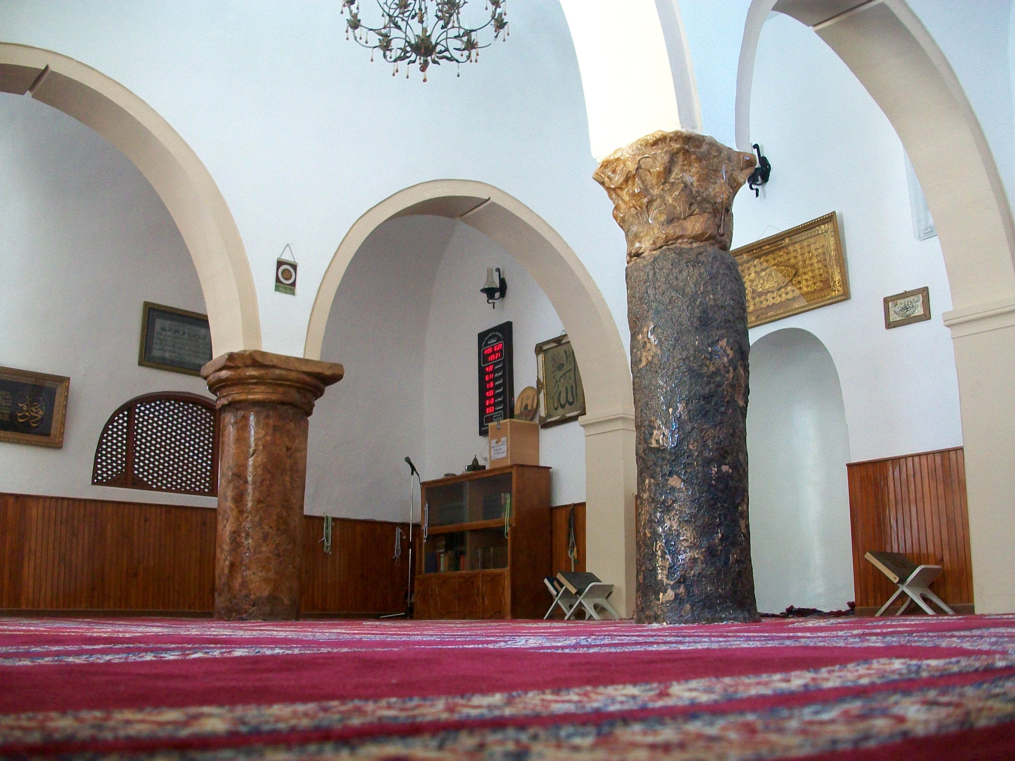 Sidi Abdul Wahhab Mosque interior — located in the Medina of Libya's capital Tripoli.